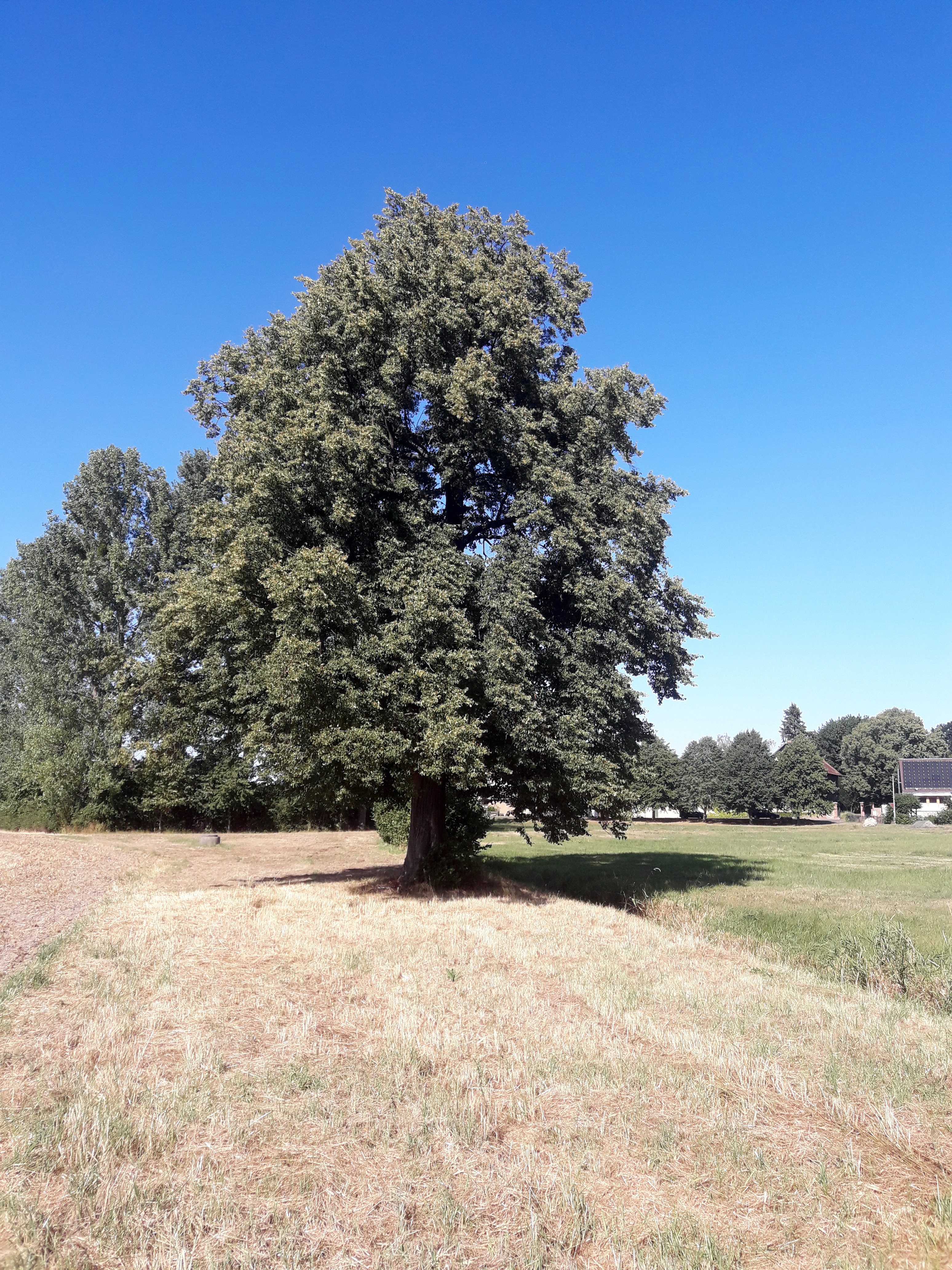 winter lime tree of Glasten